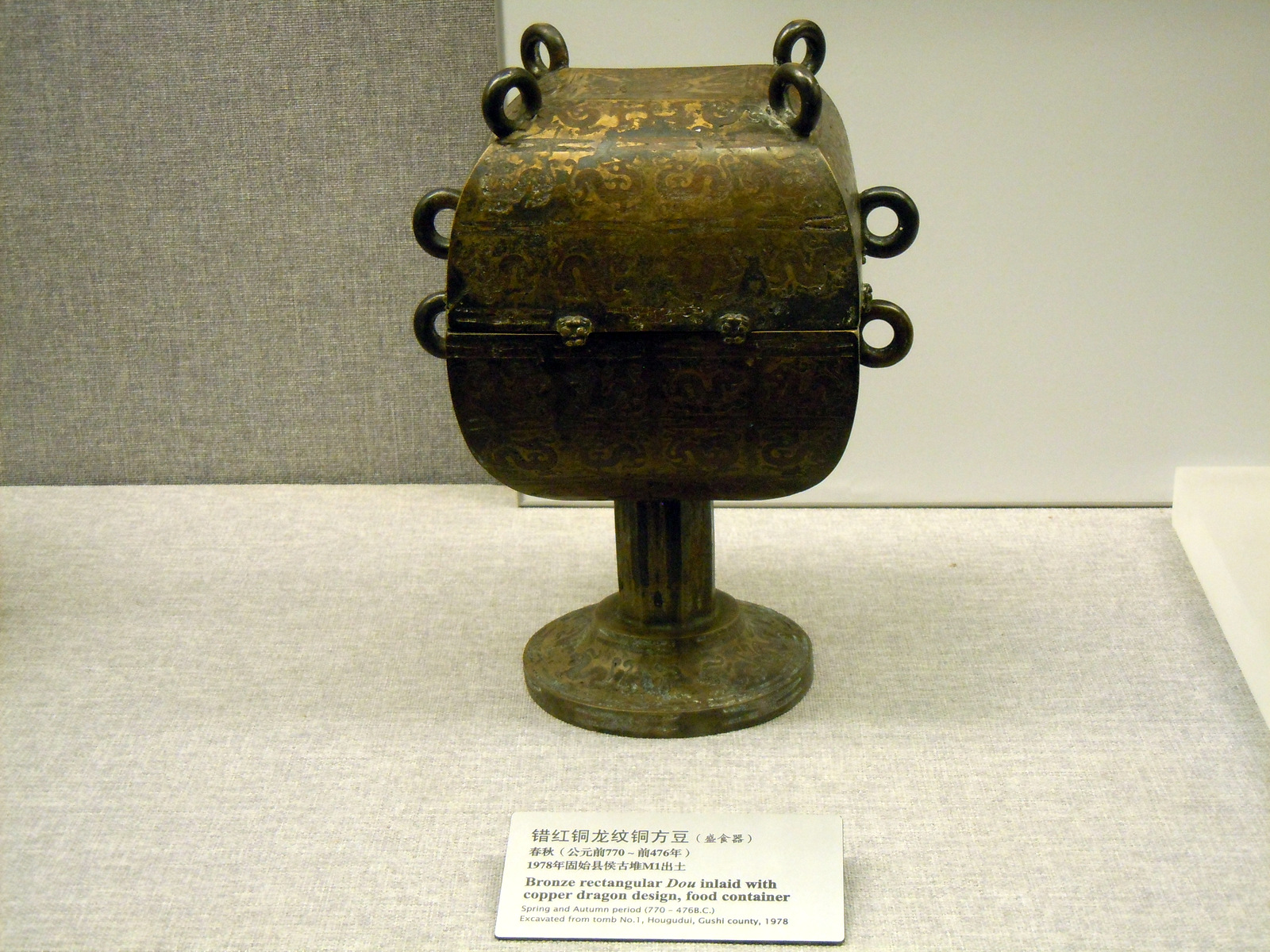 Bronze rectangular dou inlaid with copper design. Food container. Spring and Autumn period (770-476). Excavated from tomb n° 1, Hougudui, Gushi County, 1978.